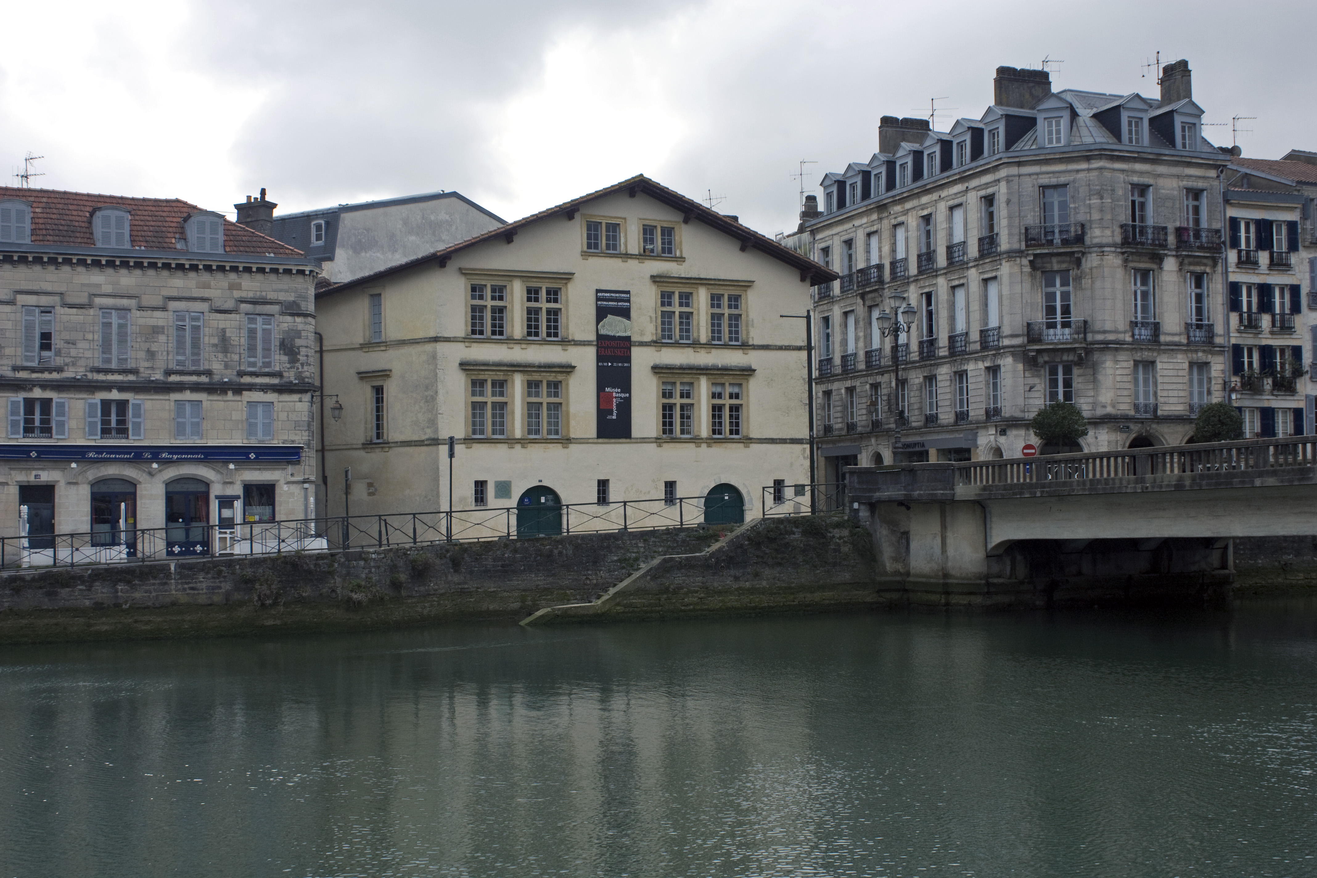 The House of Dagourette is home to the Basque Museum.